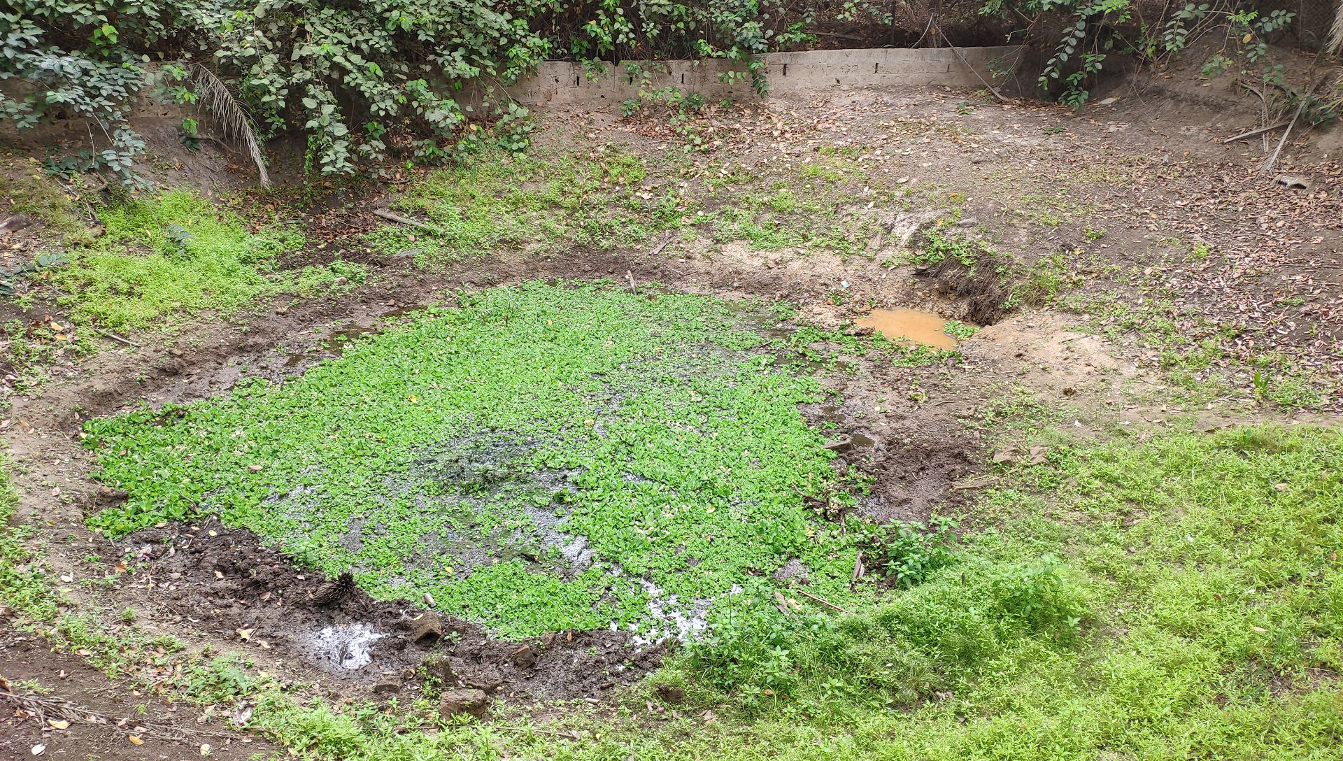 Heiliges Krokodilbecken von Folonko, Gambia British